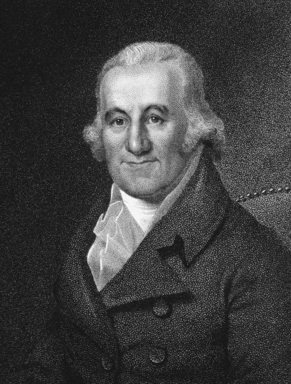 from here